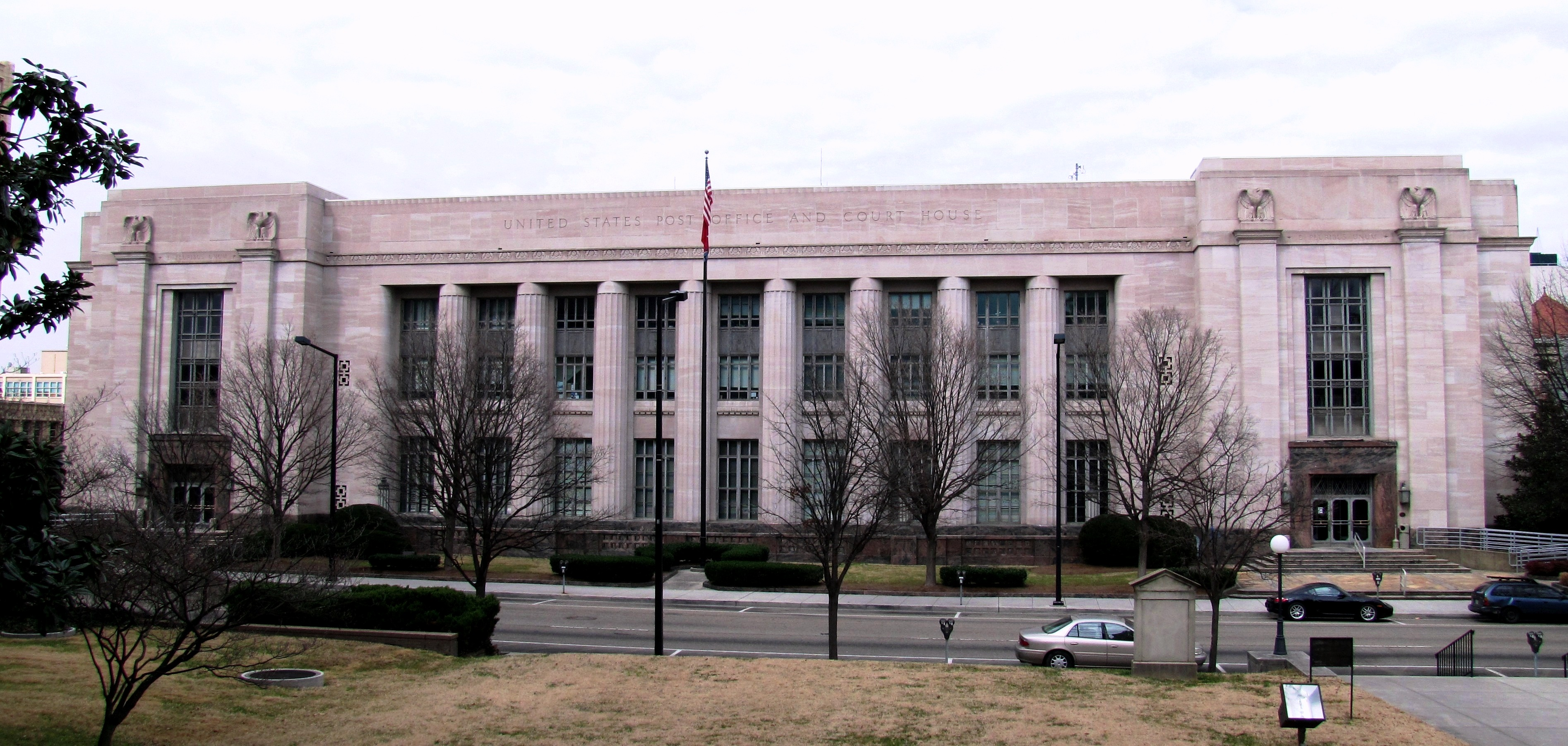 The NRHP-listed Knoxville Post Office (listed by the USPS as "Downtown Knoxville") in Knoxville, Tennessee, USA. This building is now also one of the courthouses used by the Tennessee Supreme Court.